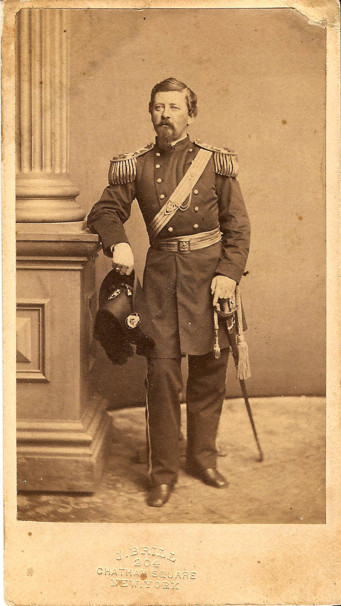 Colonel Paul Frank (-1875), 52nd New York Infantry Regiment